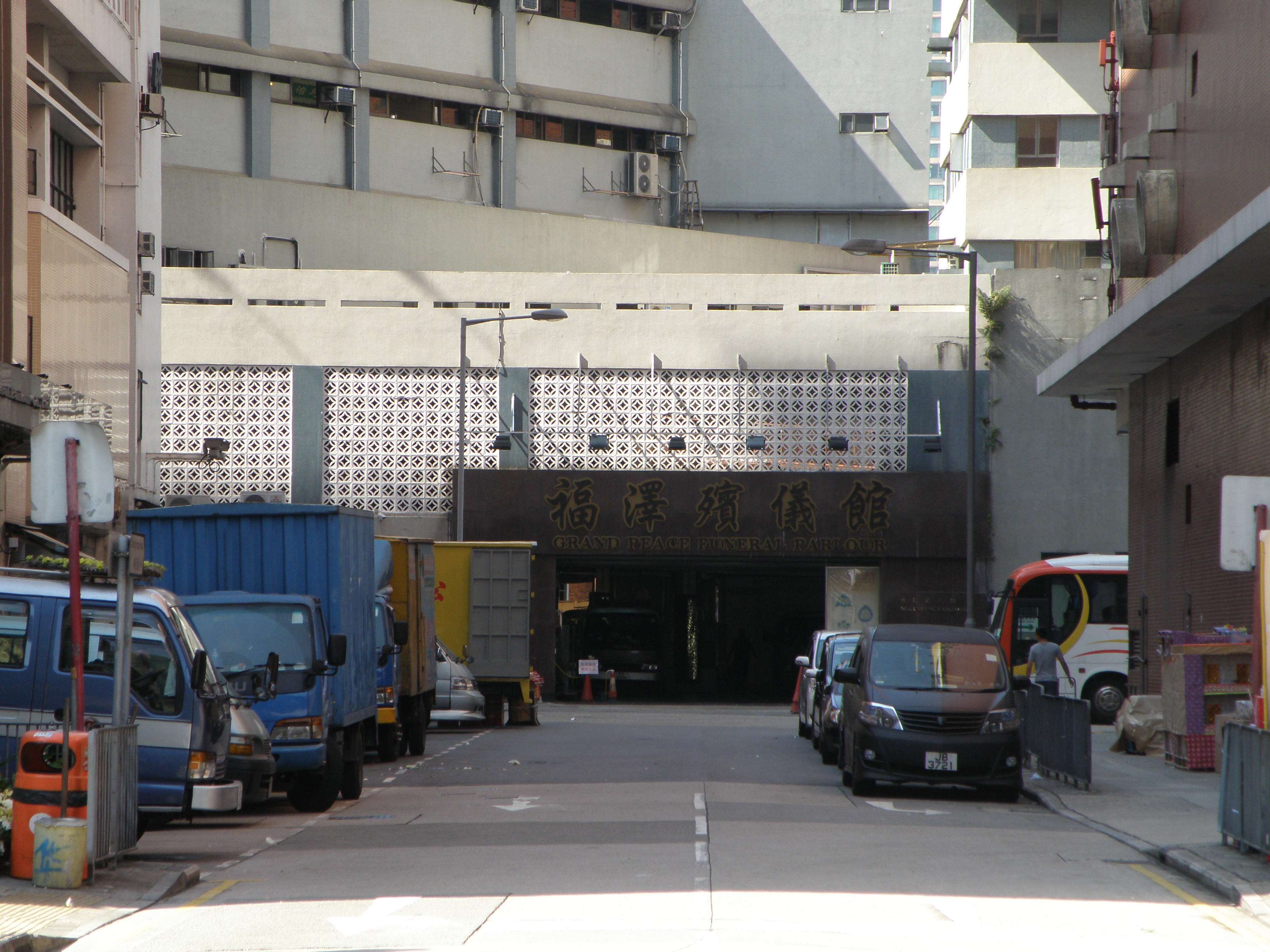 Grand Peace Funeral Parlour in Hung Hom, Hong Kong.